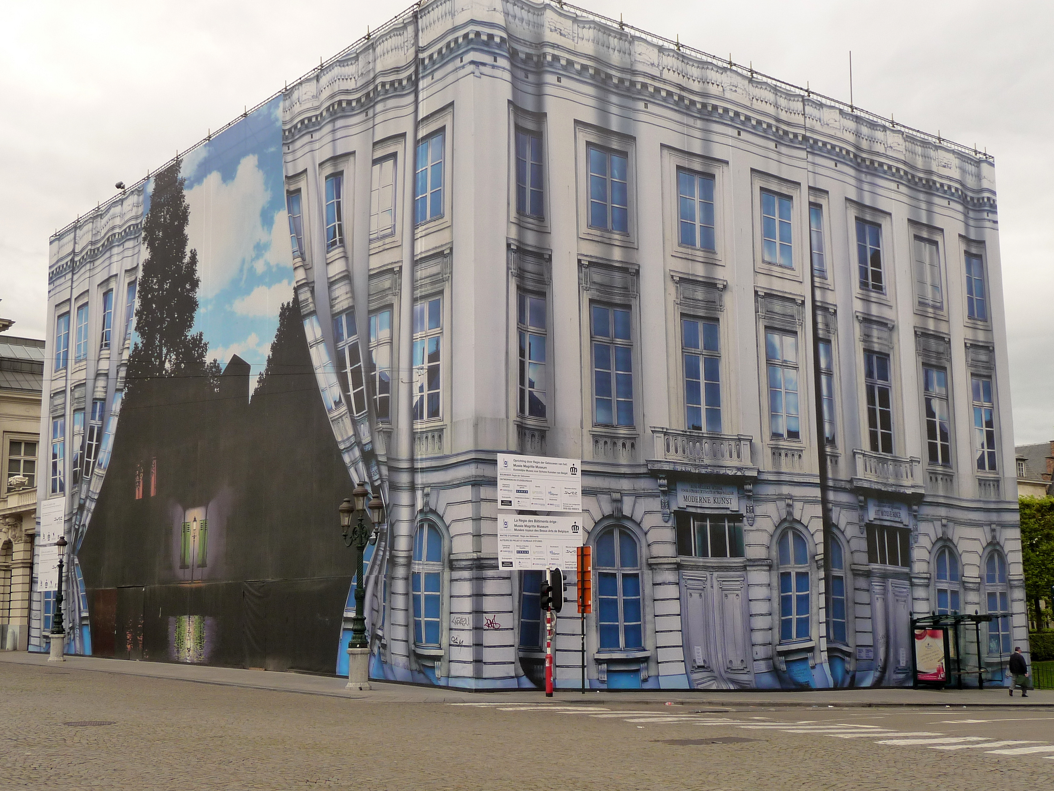 Royal Museums of Fine Arts of Belgium, Brussels. Installation of the new Magritte-Museum 2008/09